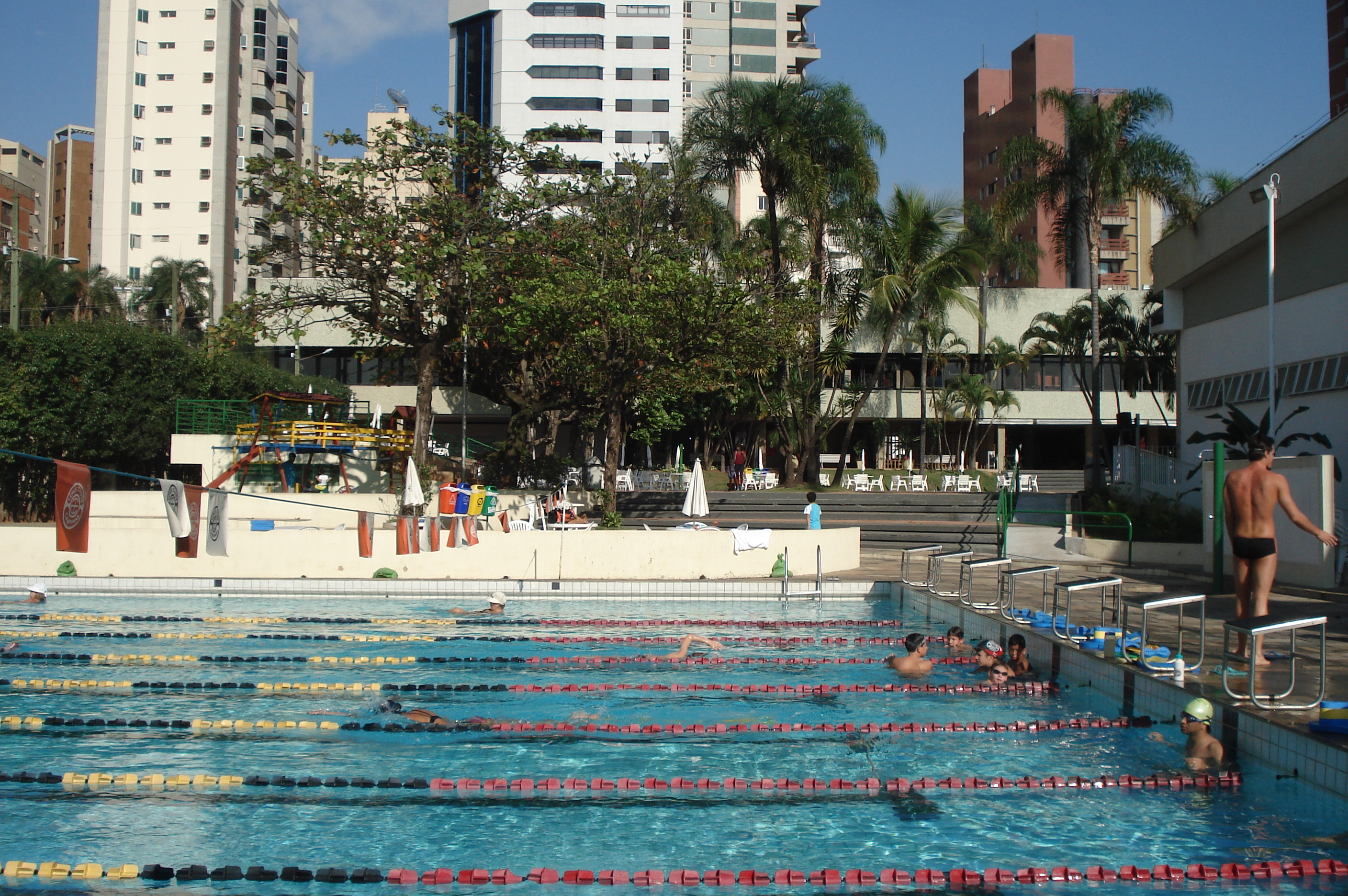 Swimming pool in the Tênis Clube de Campinas (TCC), in Campinas, São Paulo, Brazil.